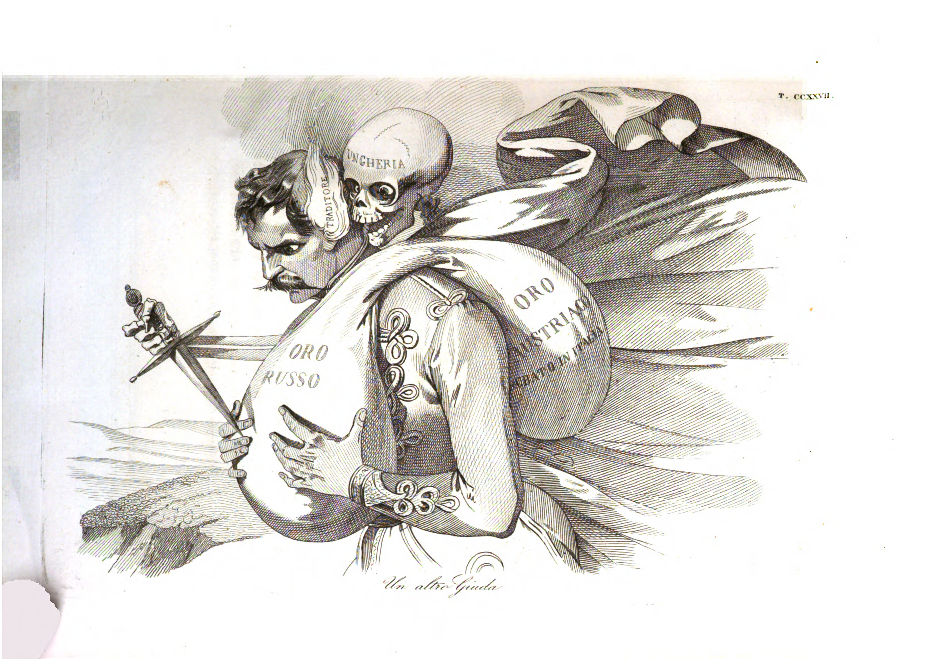 Michelangelo Pinto The treason of Görgei 1853